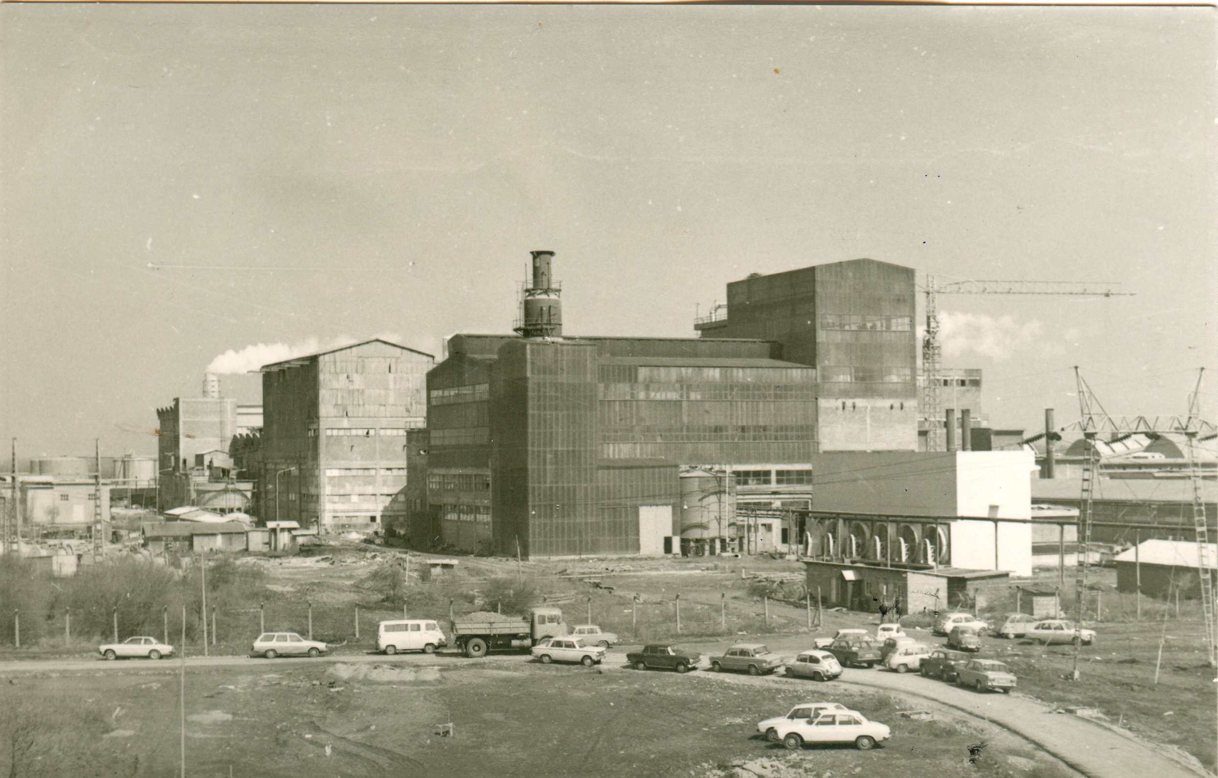 Industry chemical products in Prahovo near Negotin 1959. Srpski (latinica): Industrija hemijskih proizvoda Prahovo kod Negotina 1959. godine